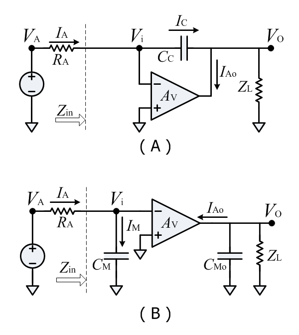 An illustration used in the "Miller Effect" Wikimedia page.